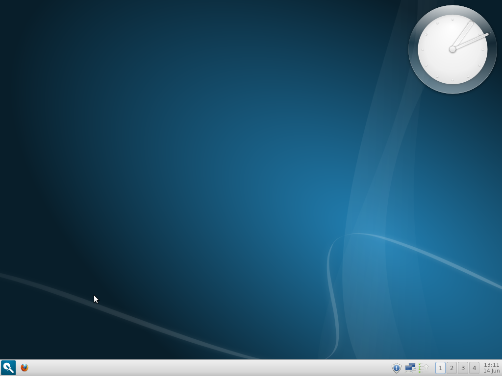 Screenshot of Linux Mint 12 with Razor-qt 0.4.1 desktop.